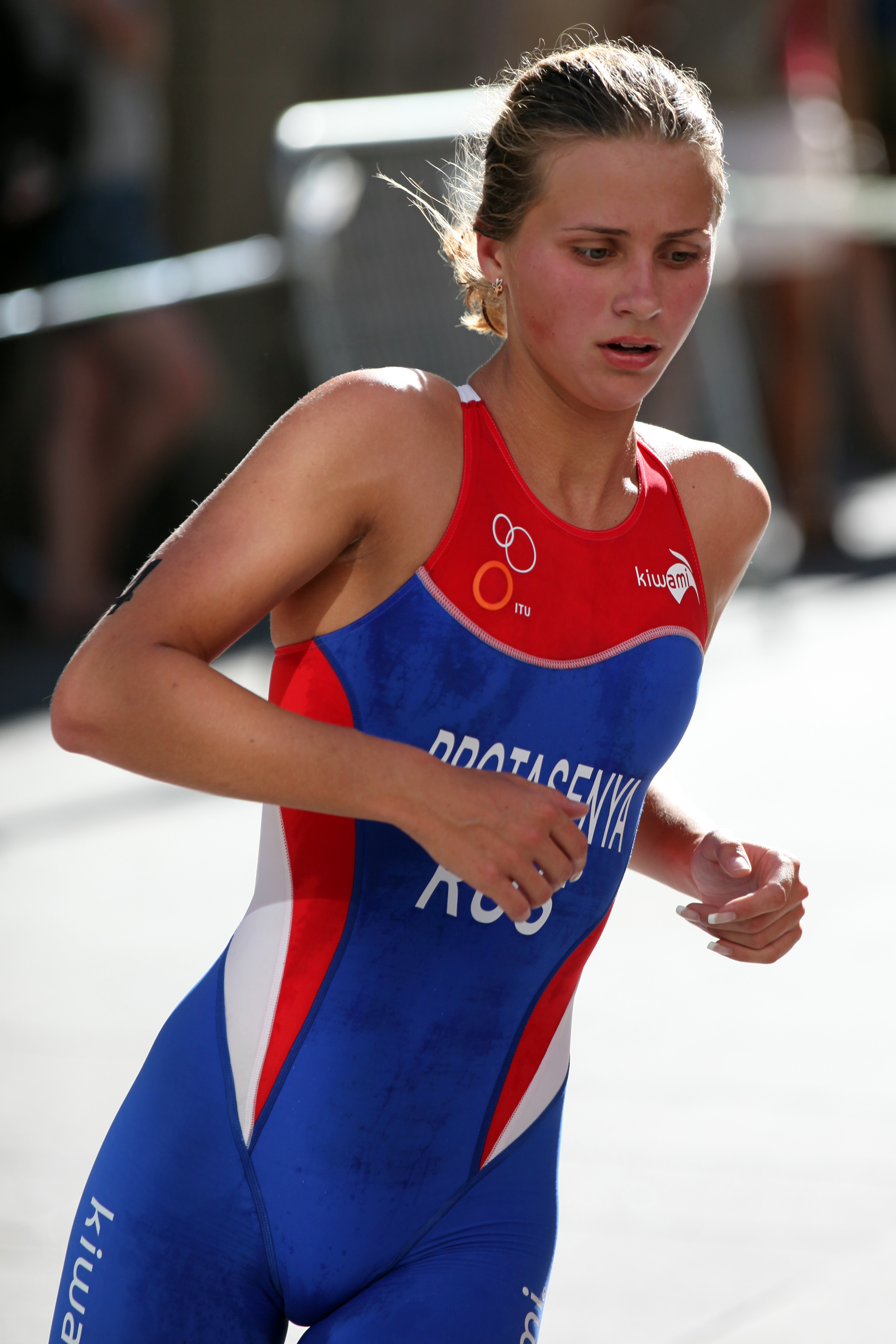 Anastasiya Protasenya (Анастасия Александровна Протасеня) at the European Championships in Pontevedra